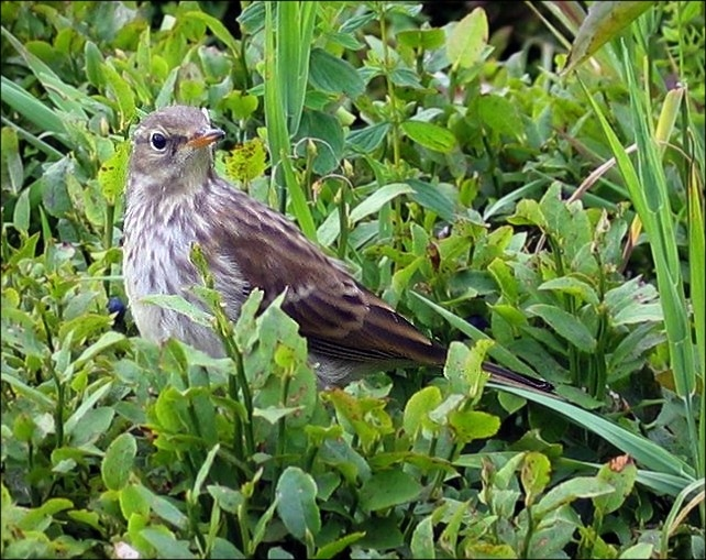 Anthus spinoletta in Bieszczady Mountains